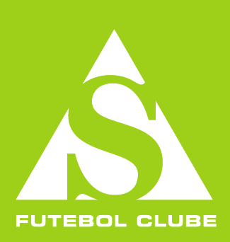 GD Sundy is an amateur football club based in the island of Principe.